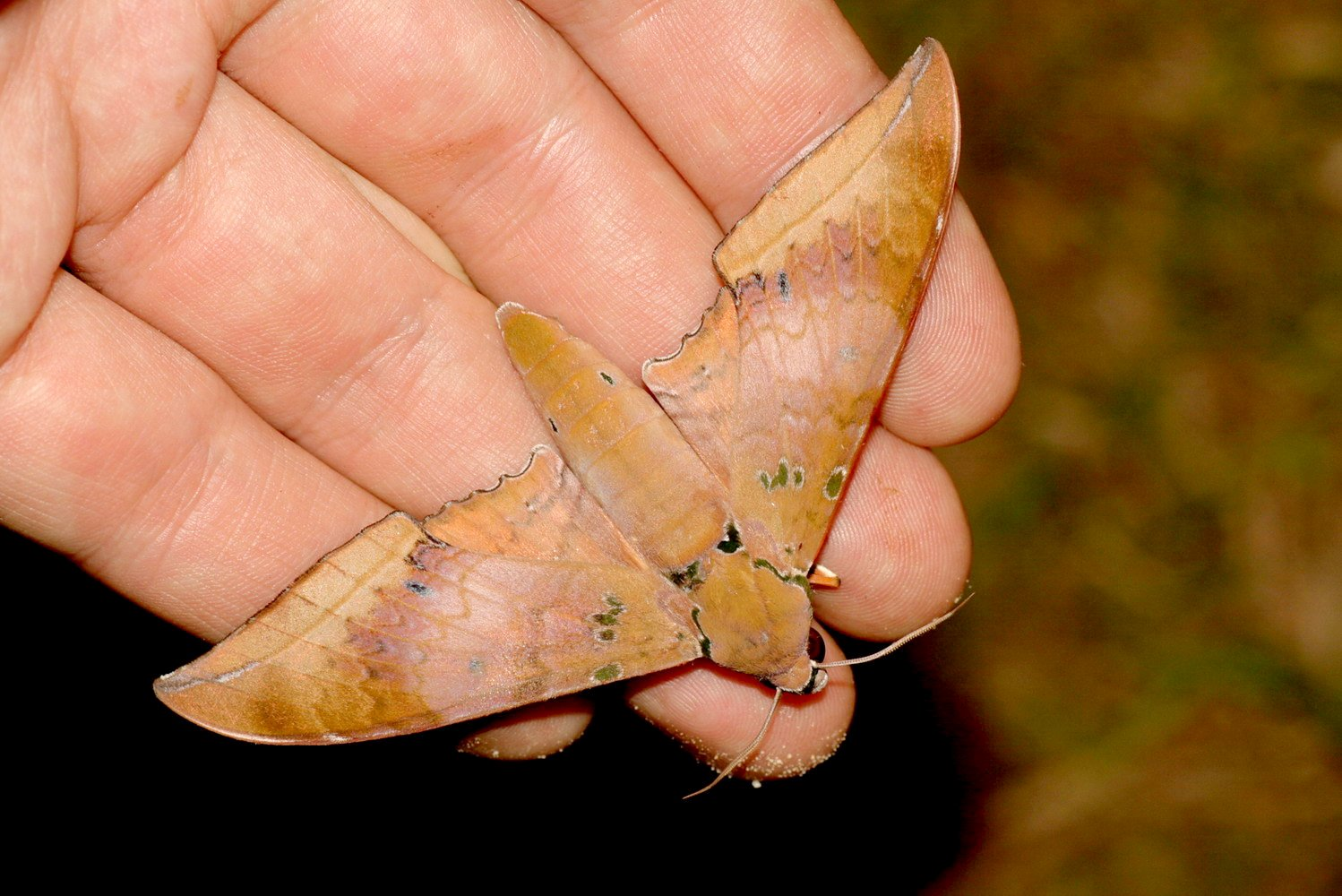 Borneo Crocker Range National Park April, 2009